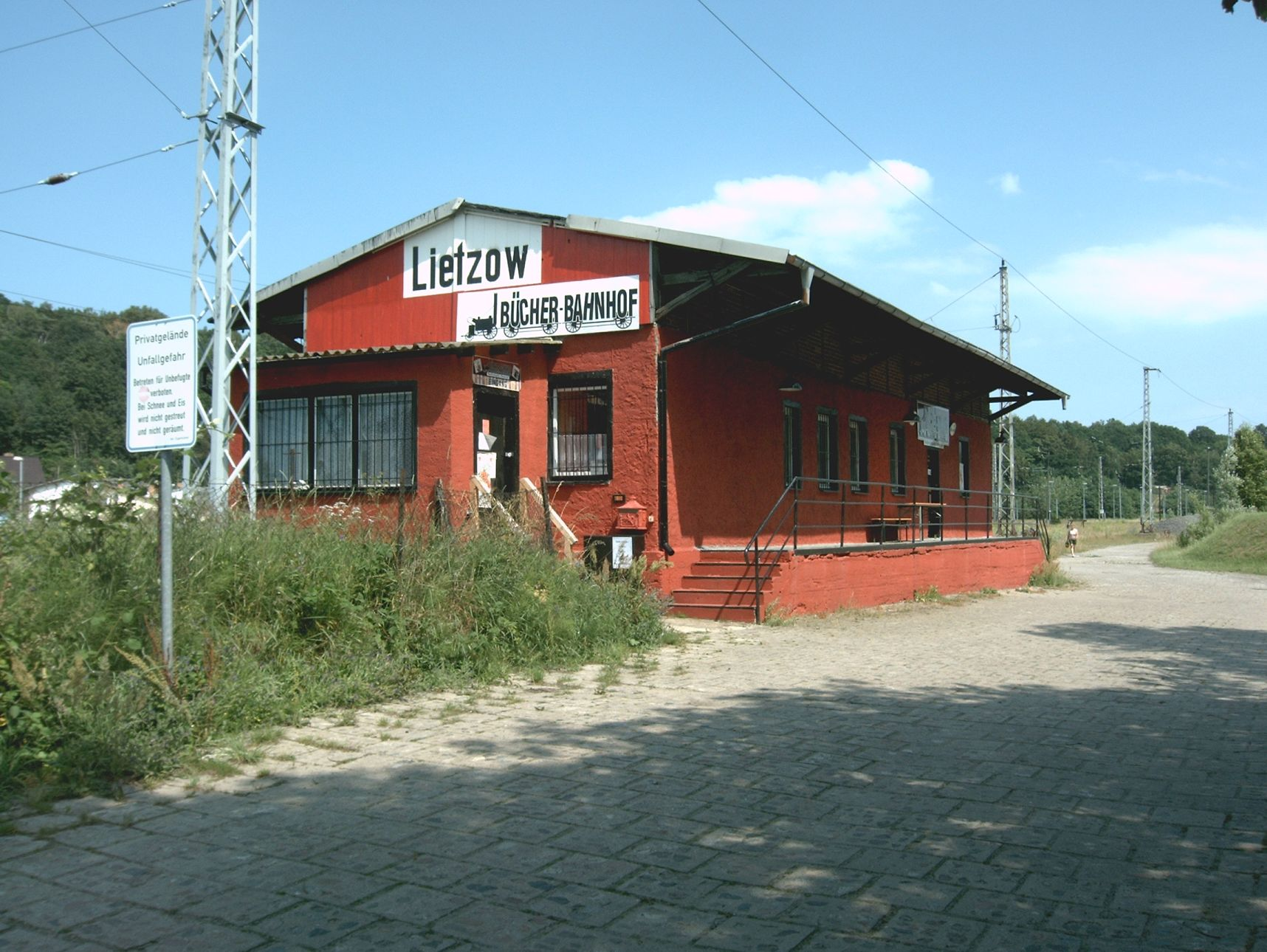 Lietzow on Rügen: The Book train station, a second hand bookshop.